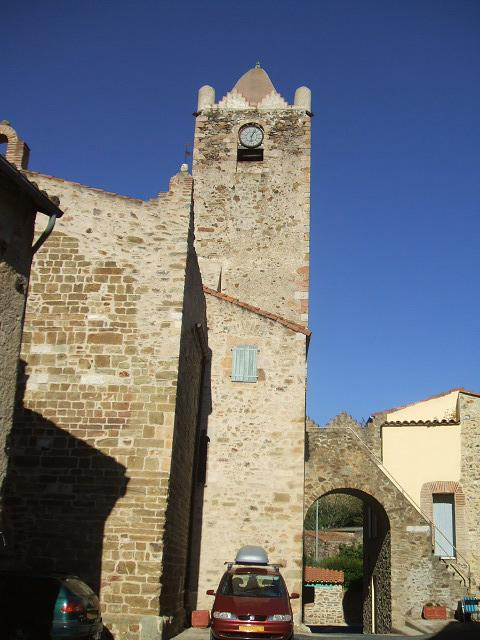 Oms (département of Pyrénées-Orientales, Languedoc-Roussillon region, France) Saint-John church (XIIth century), viewed from the village plaza.